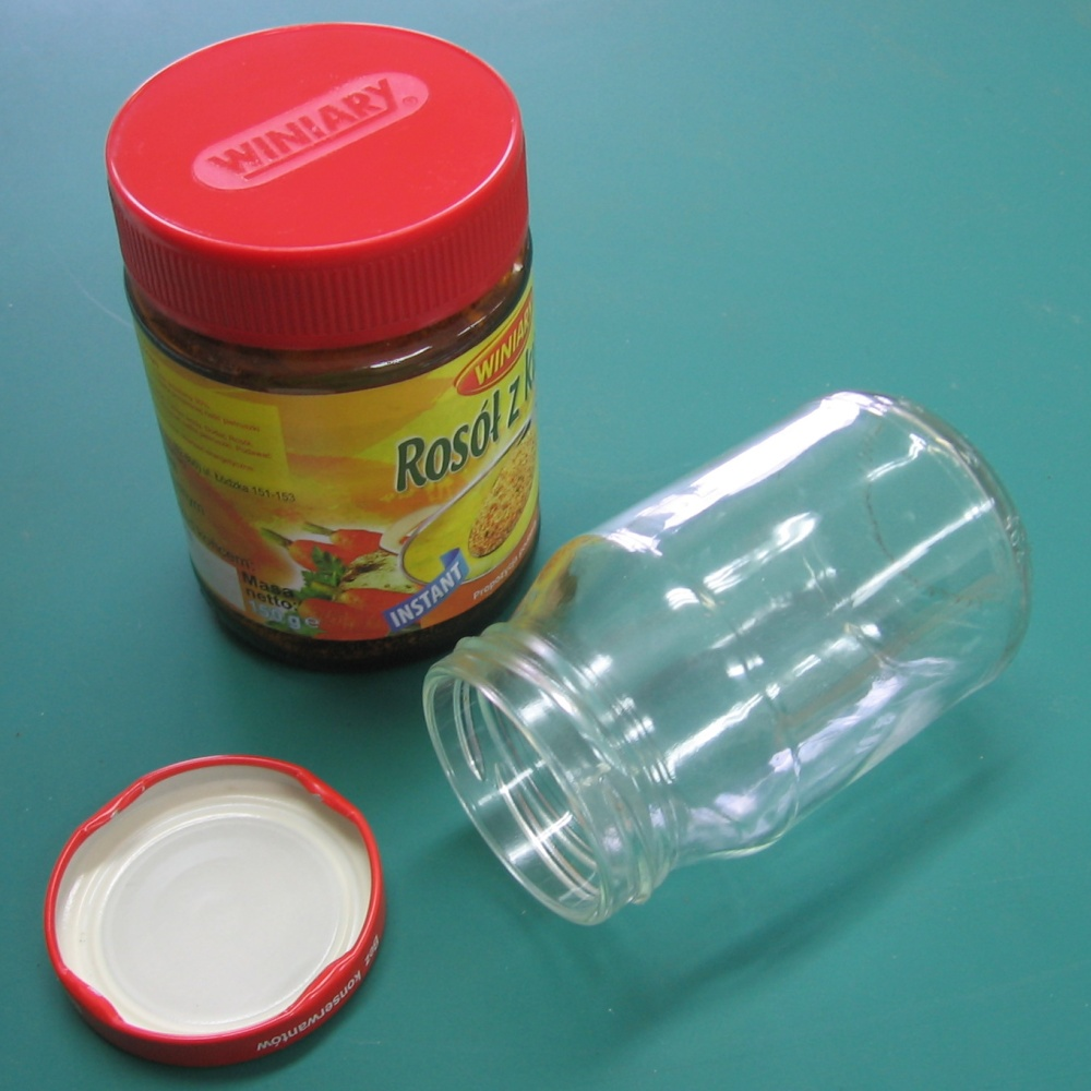 Glass jars (0.25 liter brown, 0.2 liter colourless)